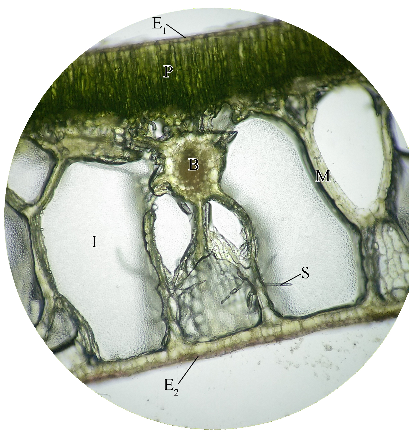 Cross-section of a floating leaf of Nympheae alba, fine-cut preparation, transmitted light, 400x magnification.